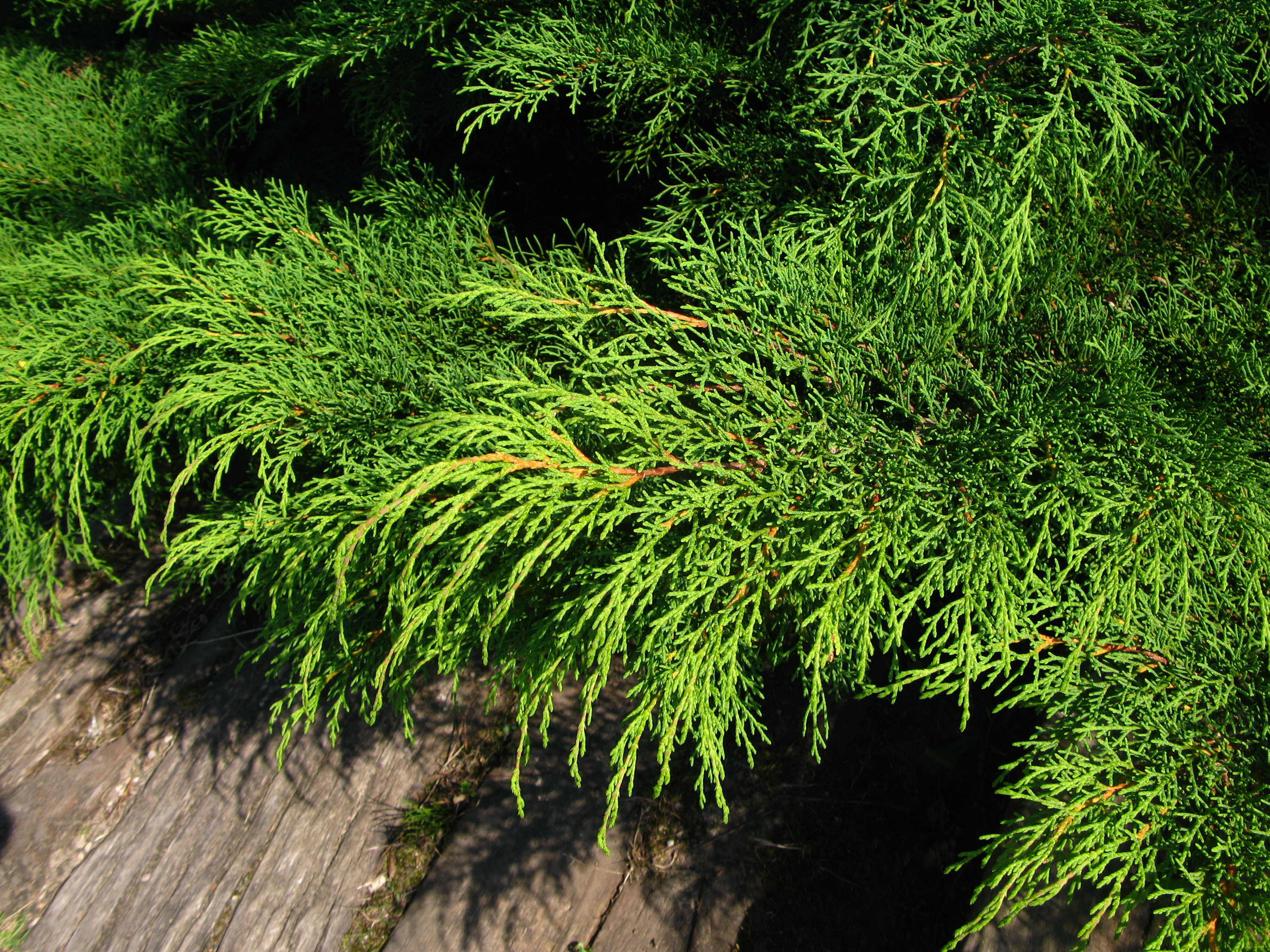 Microbiota decussata foliage in PAN Botanical Garden in Warsaw